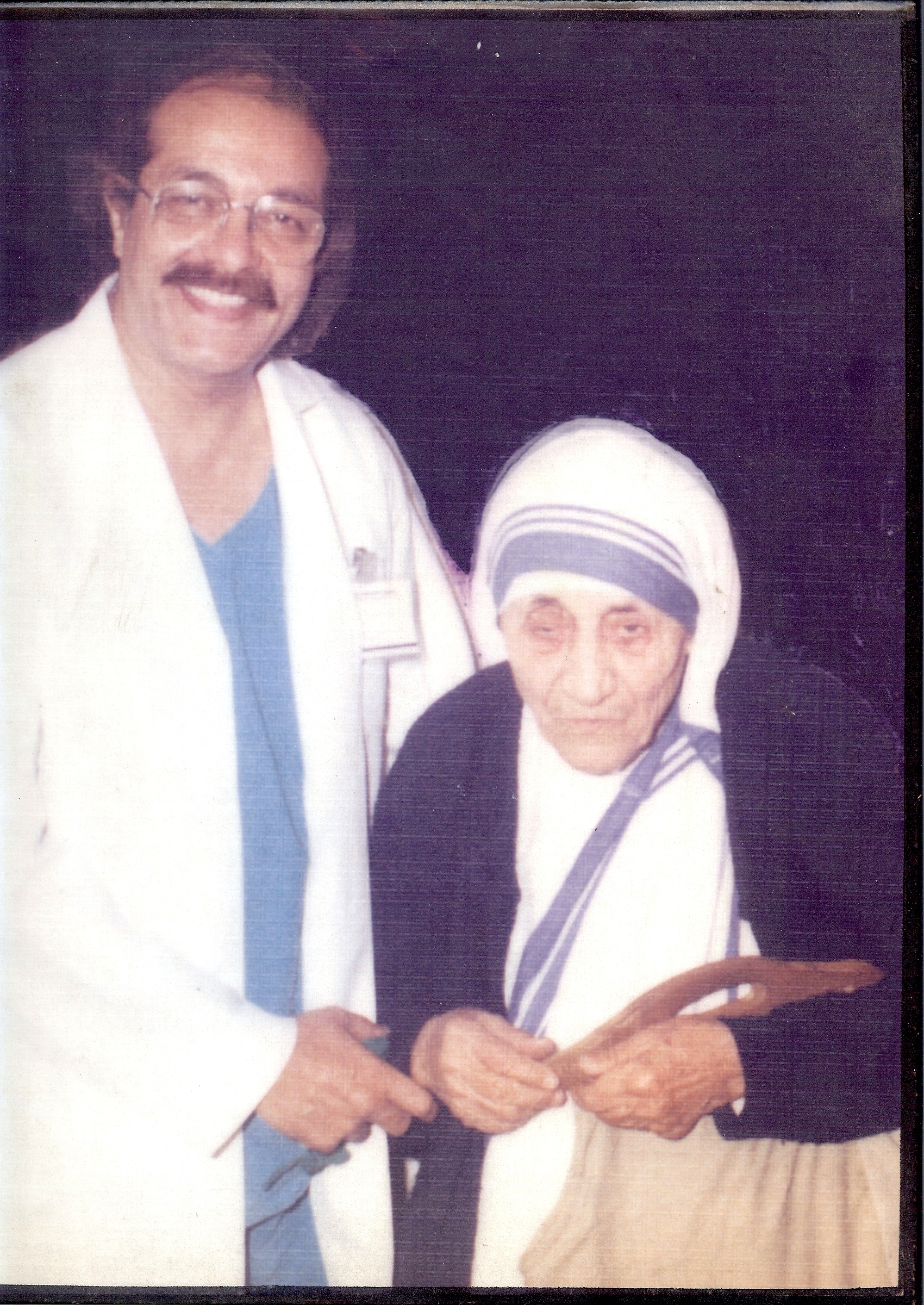 Mother Teresa and Sharad Panday